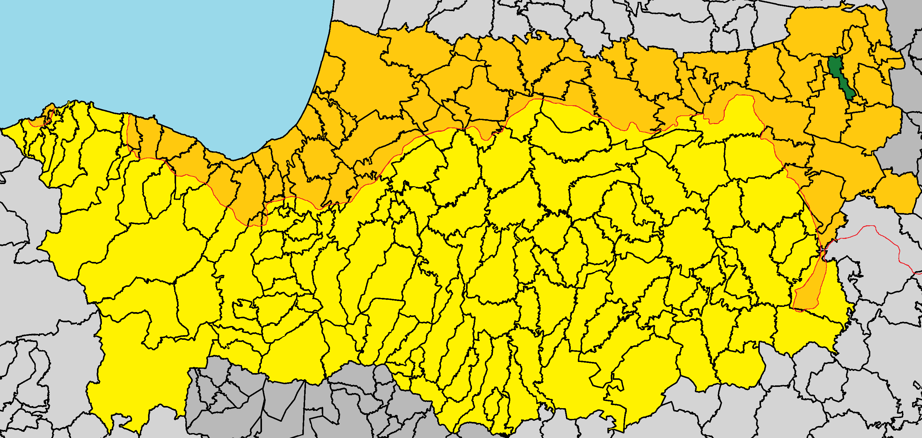 Voni in Nicosia District (de jure).